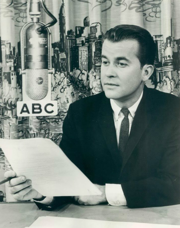 Publicity photo of Dick Clark from his ABC radio show.